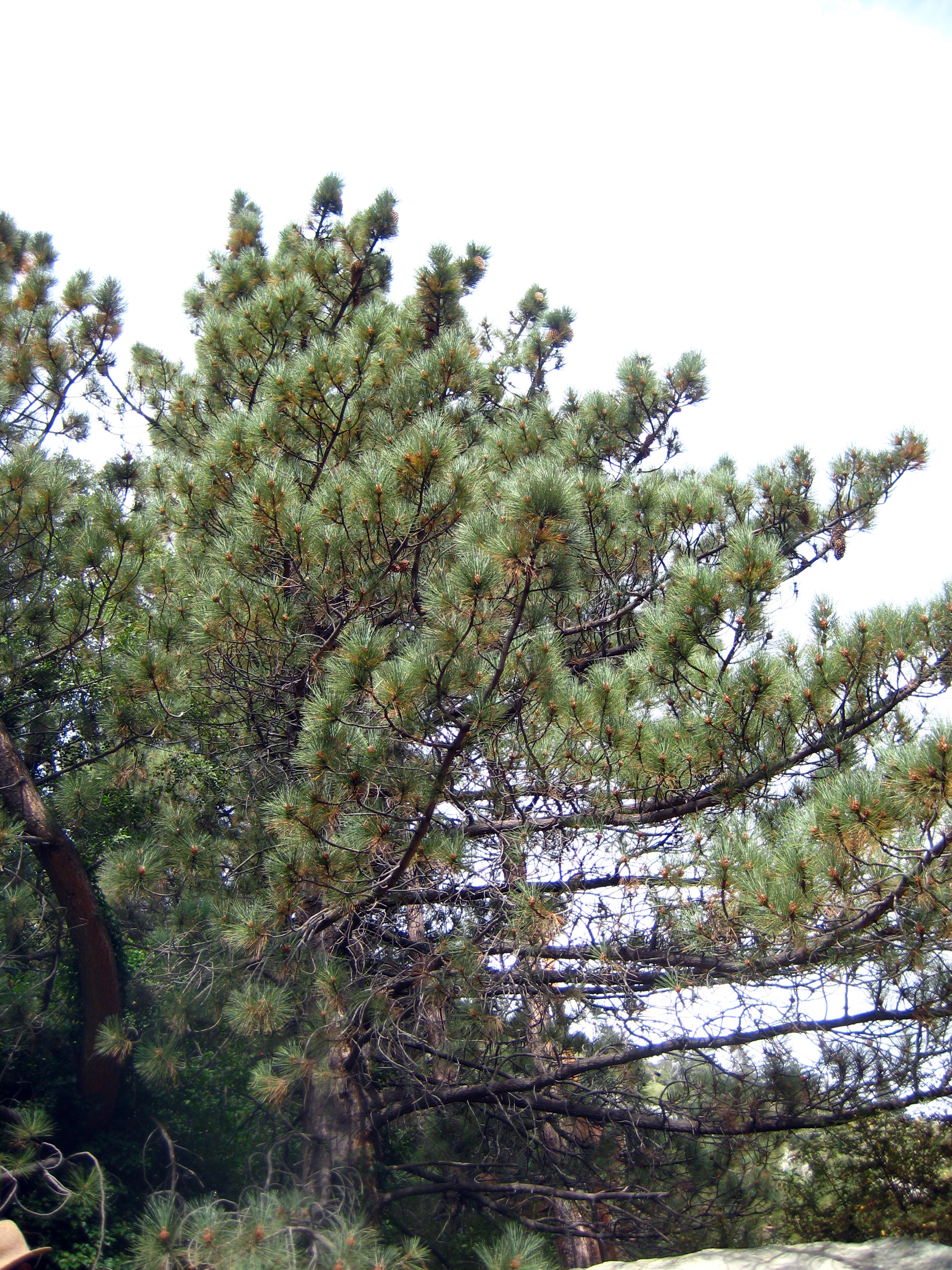 Pinus coulteri — Coulter pine, big-cone pine. On Ice House Canyon Trail, on Mt. Baldy in the San Gabriel Mountains, Angeles National Forest, Southern California.